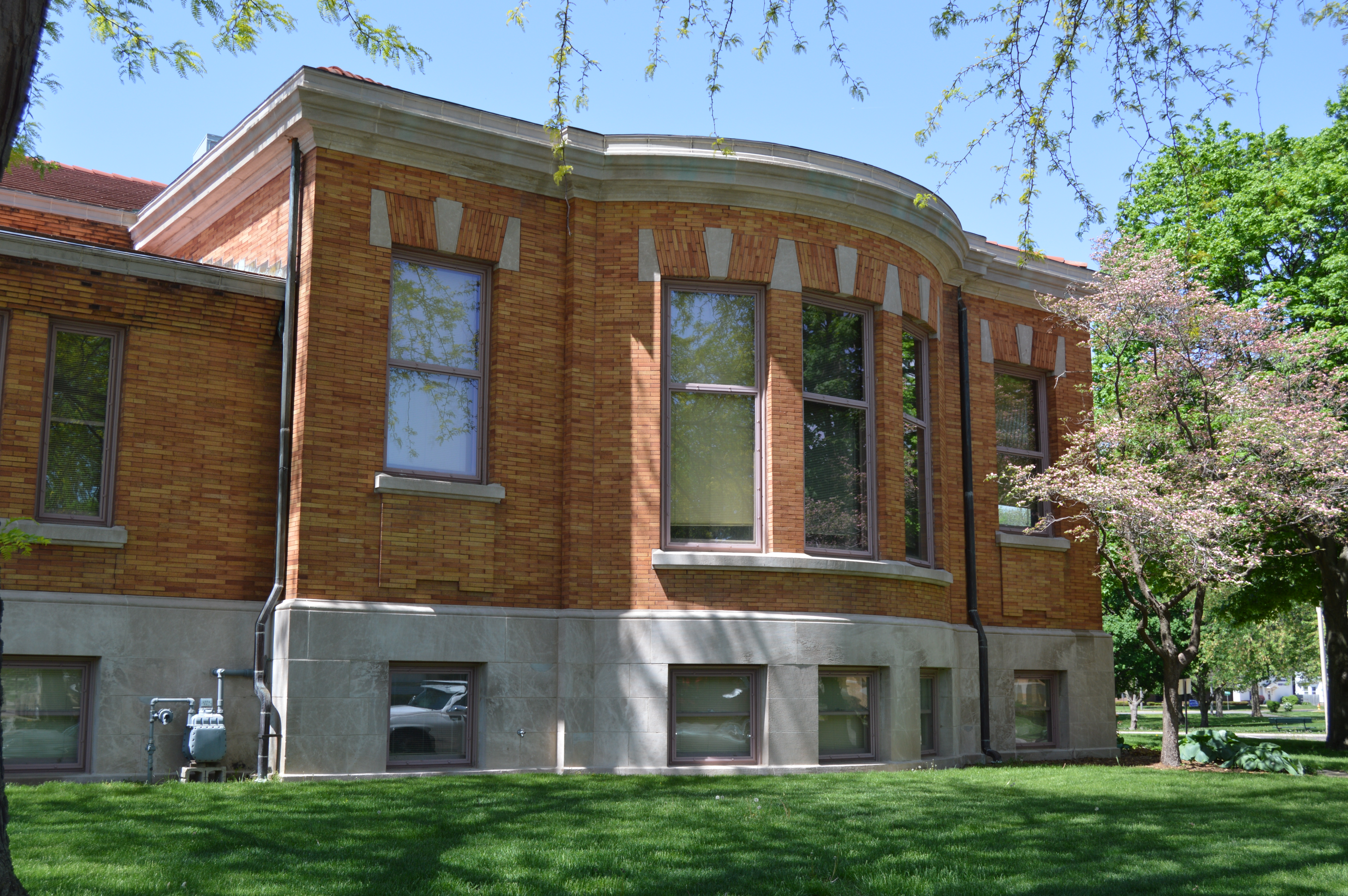 Eastern side of the Lincoln Public Library, located at 725 Pekin Street in Lincoln, Illinois, United States. Built in 1903, it is listed on the National Register of Historic Places.